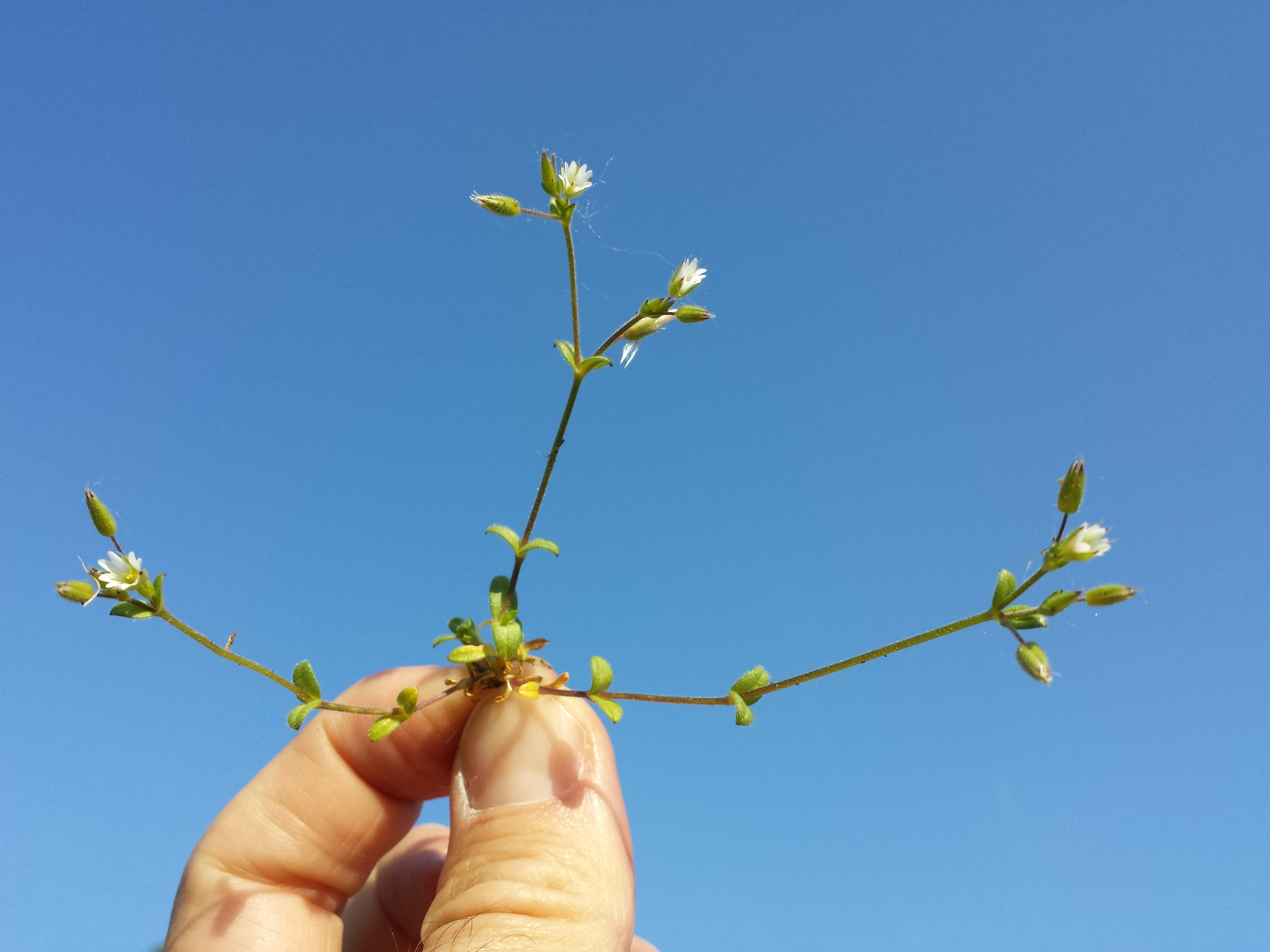 Habitus Taxonym: Cerastium glutinosum ss Letz D. R., Dančák M., Danihelka J. & Šarhanová P., 2012: Taxonomy and distribution of Cerastium pumilum and C. glutinosum in Central Europe. – Preslia 84: 33–69, vgl. Korrekturen in Neilreichia 7, S. 238 Location: Donaufeld, Vienna-Floridsdorf - ca. 160 m a.s.l. Habitat: parking space/ruderal meadows